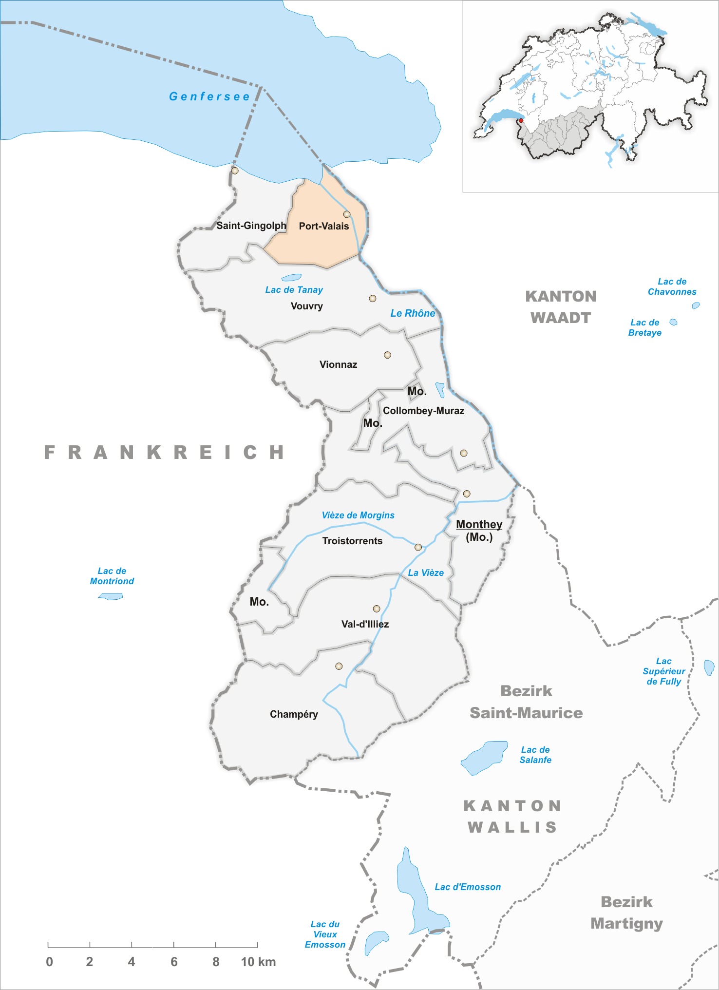 Municipality Port-Valais